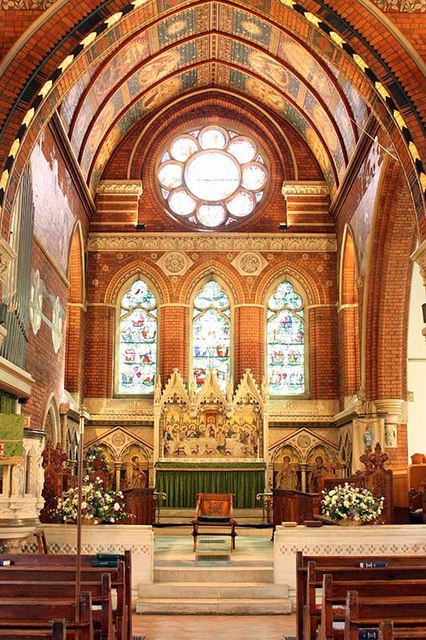 All Saints Church, Bracknell Road, Ascot, Berks - Chancel